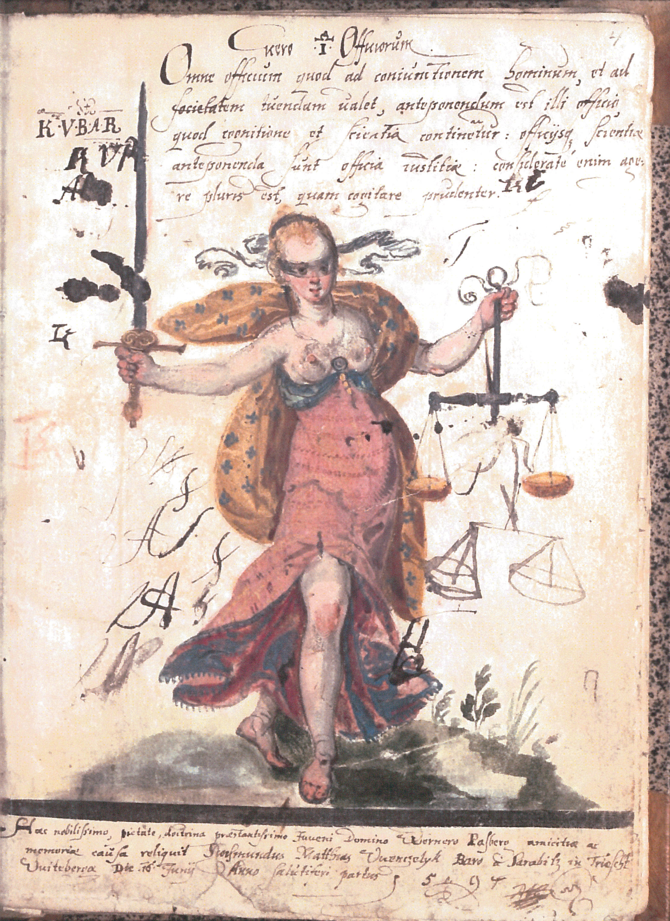 Album Amicorum